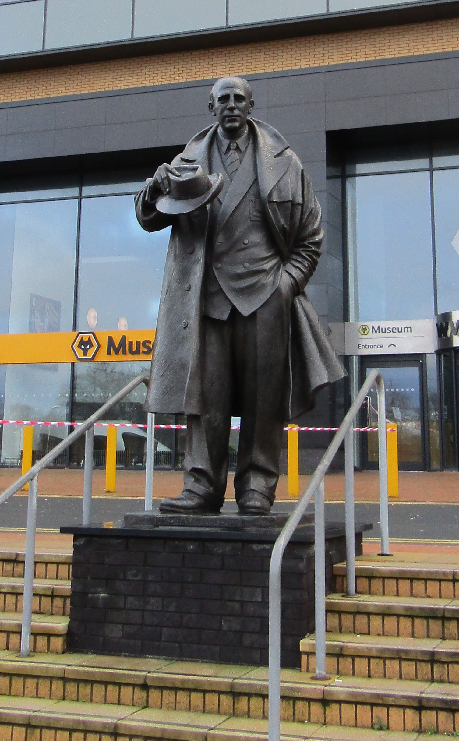 Statue at the Northern end of Molineux stadium